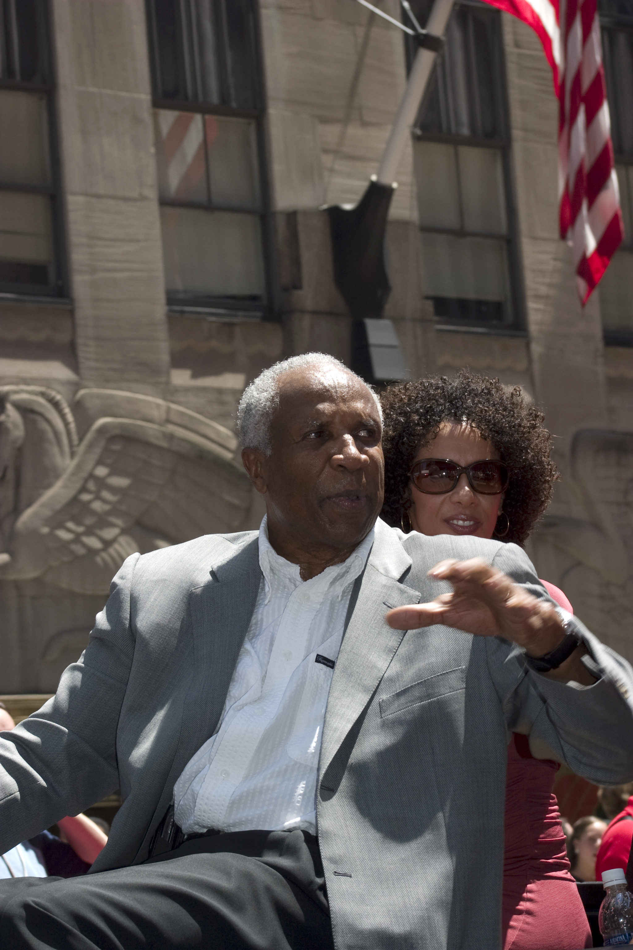 Frank Robinson. © Rubenstein, photographer Martyna Borkowski